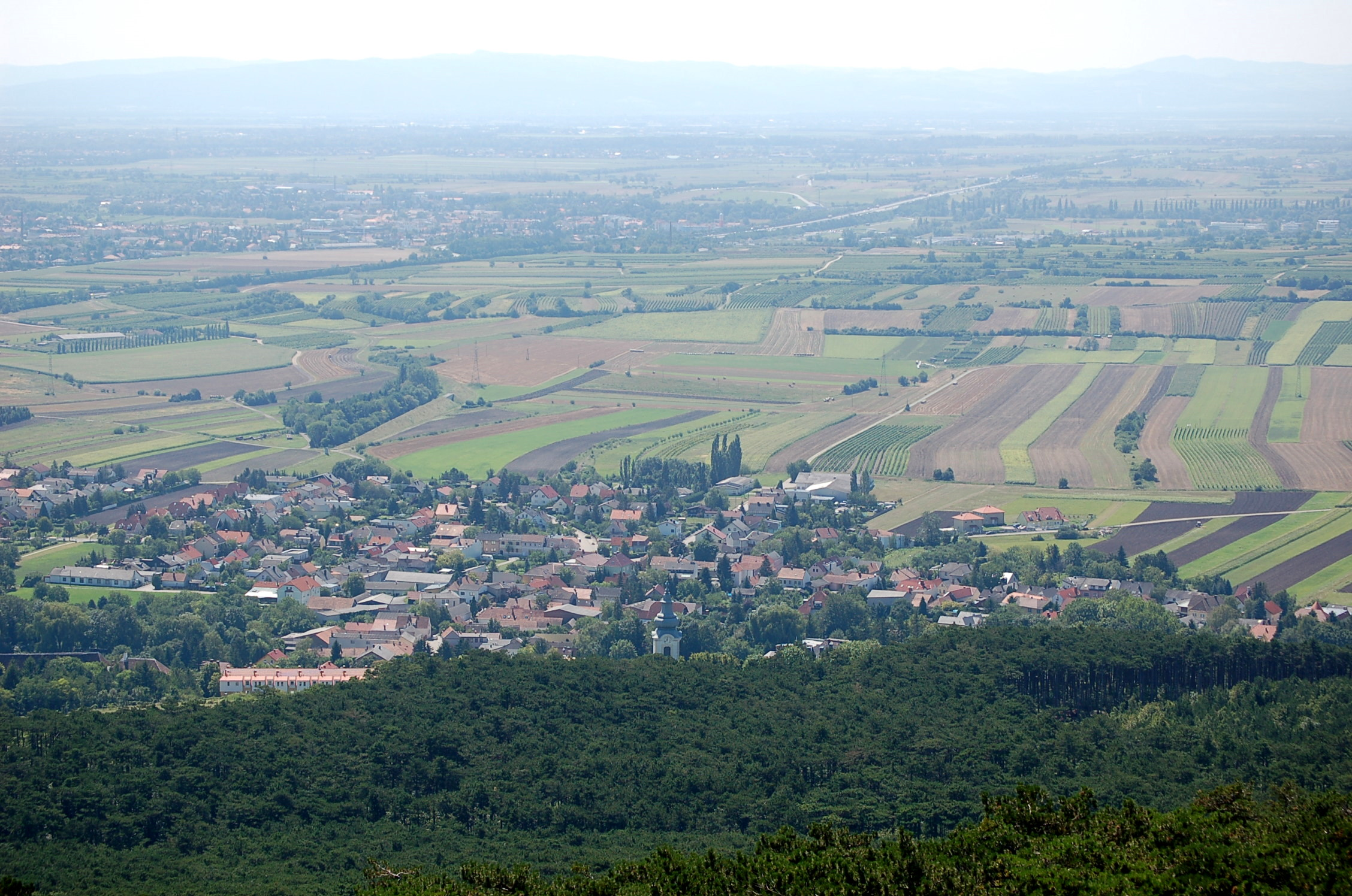 View of Gainfarn (part of Bad Voeslau) from Harzberg